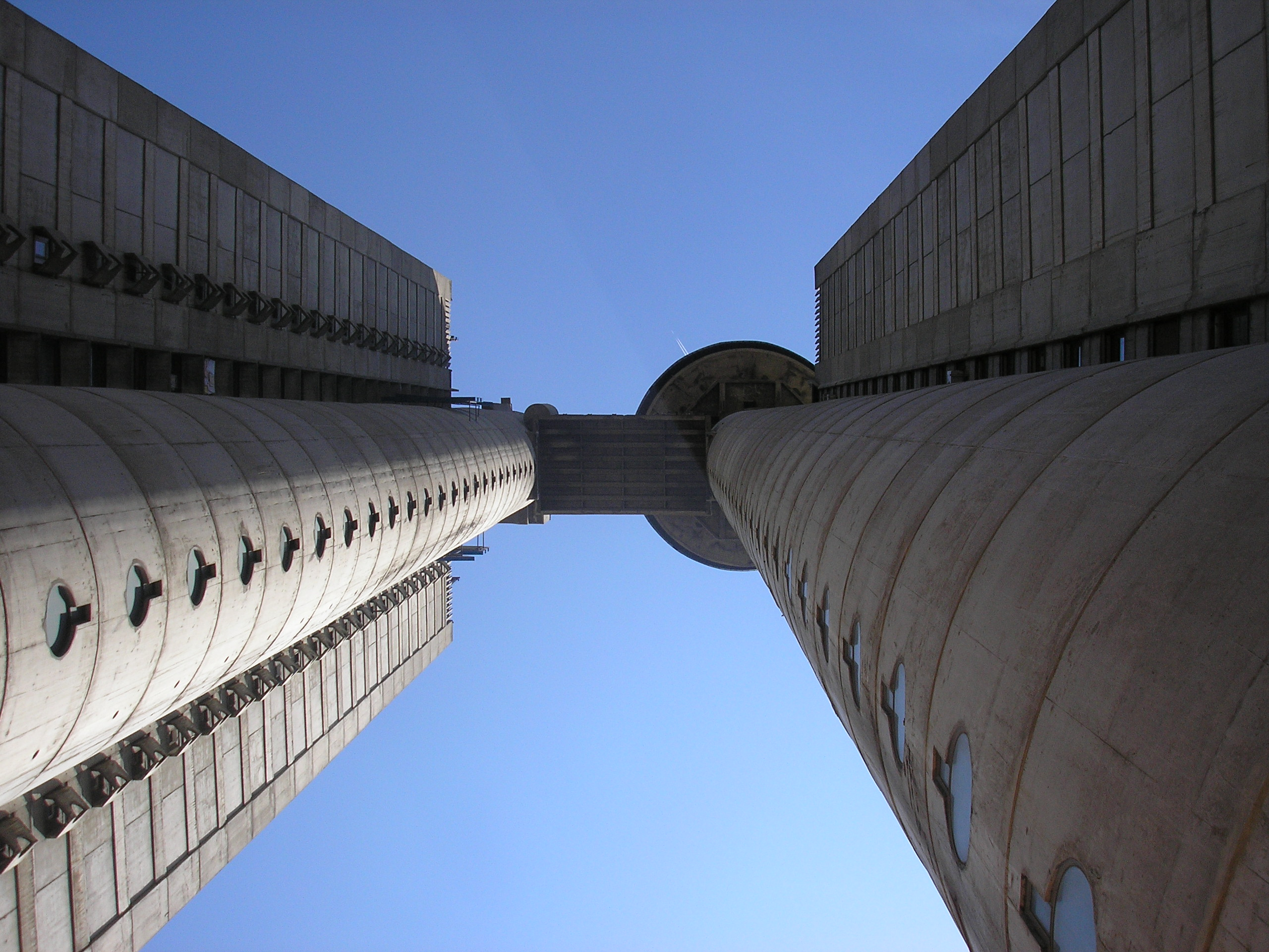 West Gate of Novi Beograd